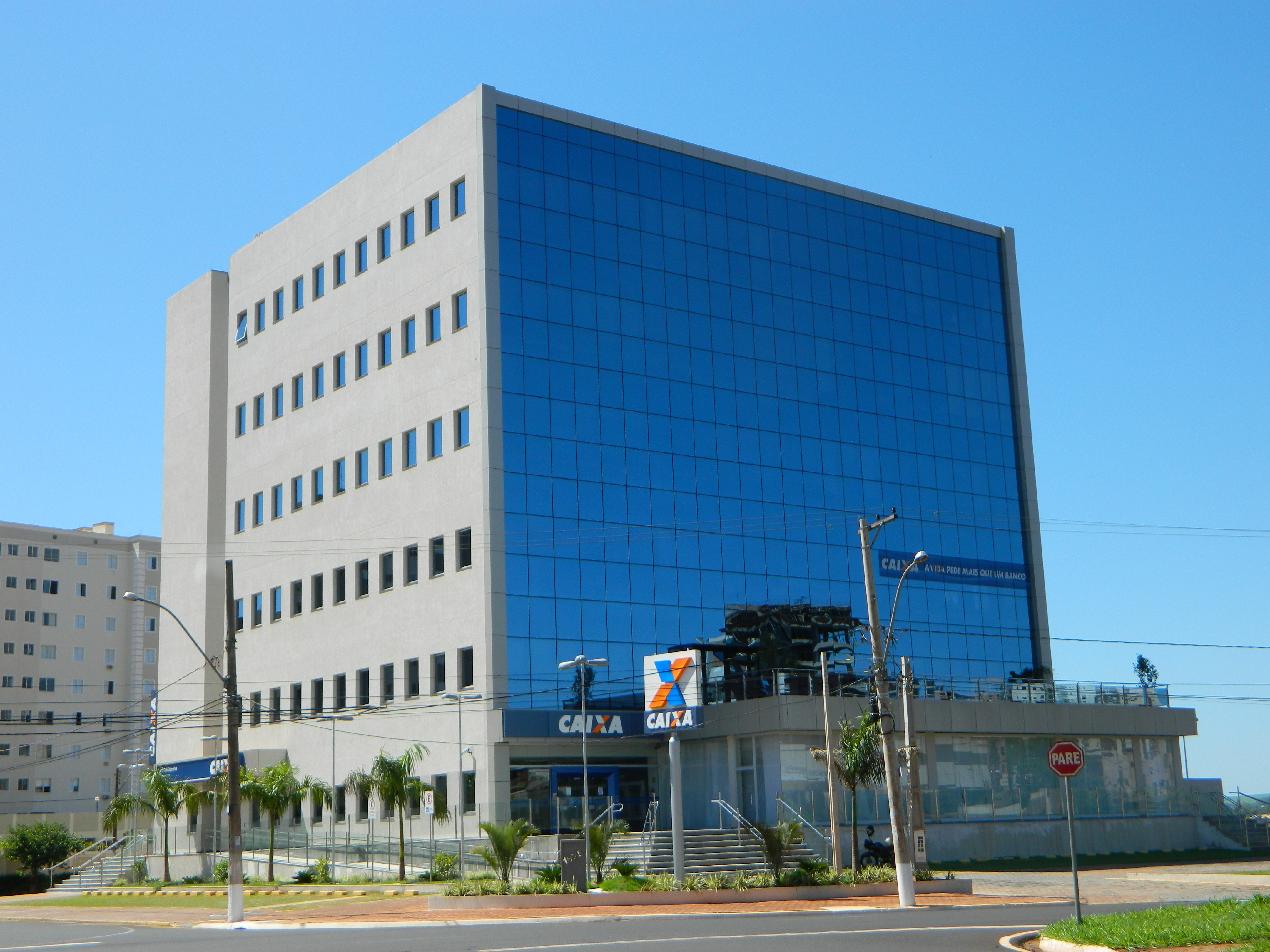 Administrative headquarters of the Caixa Economica Federal, in Ribeirão Preto.